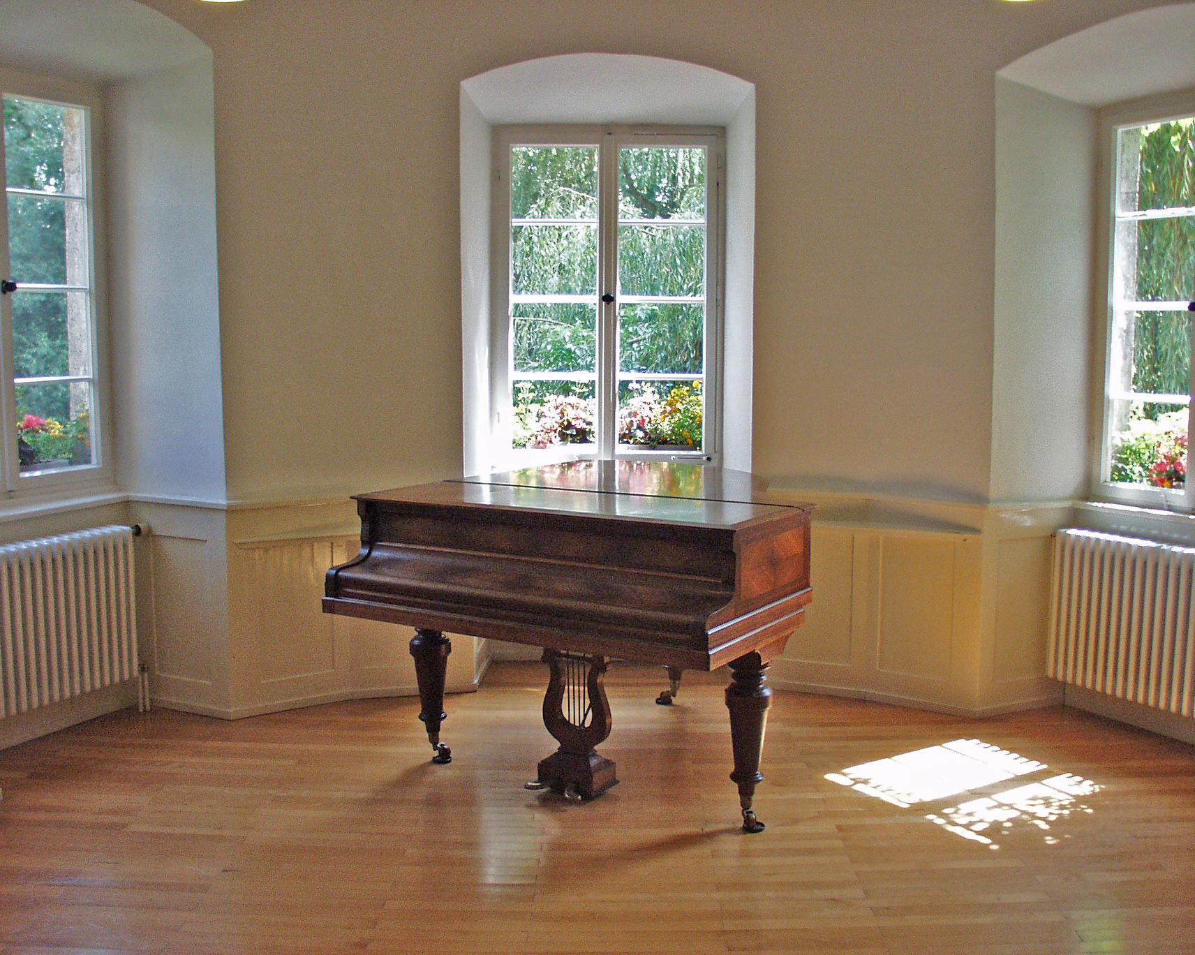 Hoelderlin's chamber in the tower beside river Neckar, Tübingen, Germany; with Bechstein grand piano of 1893.